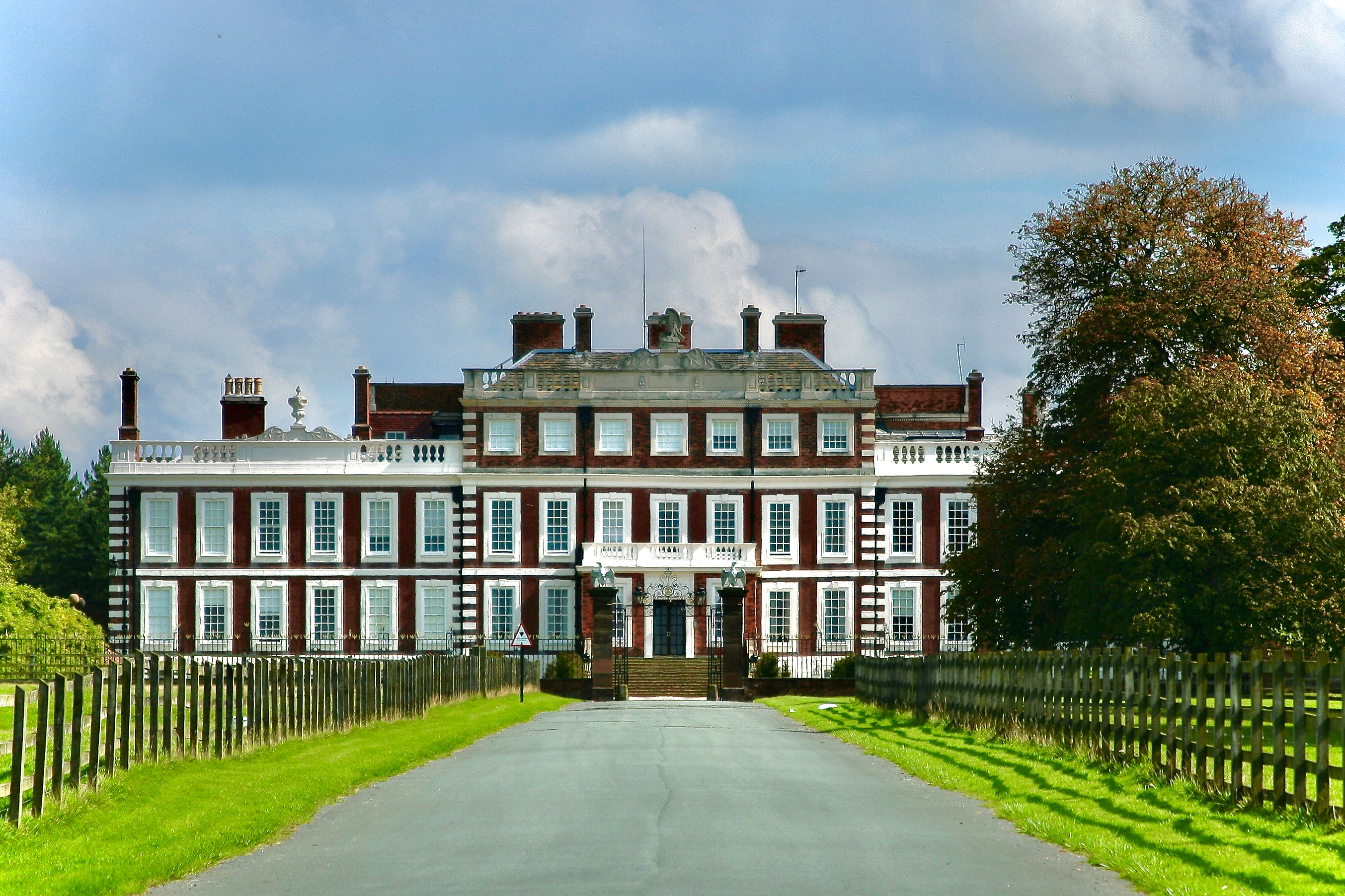 Image of Knowsley Hall taken in 2011.